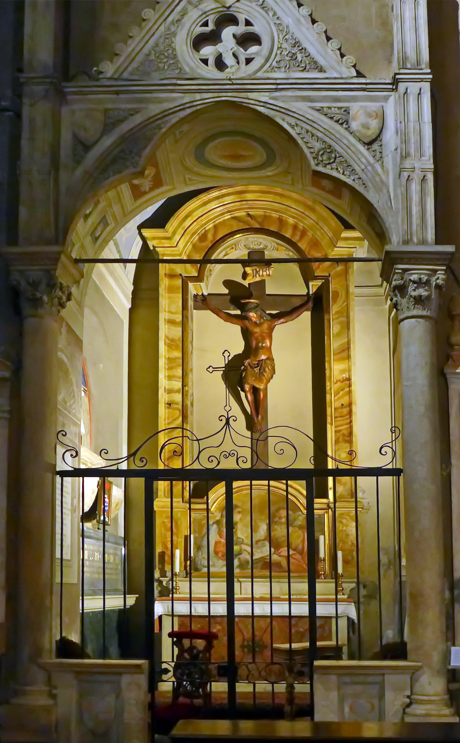 Santa Maria sopra Minerva (Rome), Cappella del Crocefisso